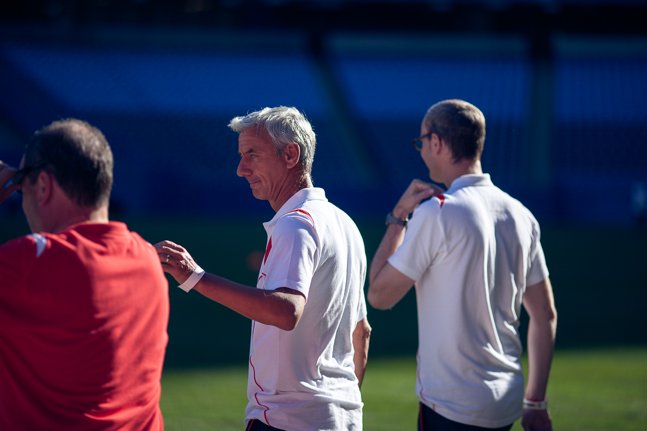 Ian Rush during Liverpool training session in Toronto, 21-07-2012.